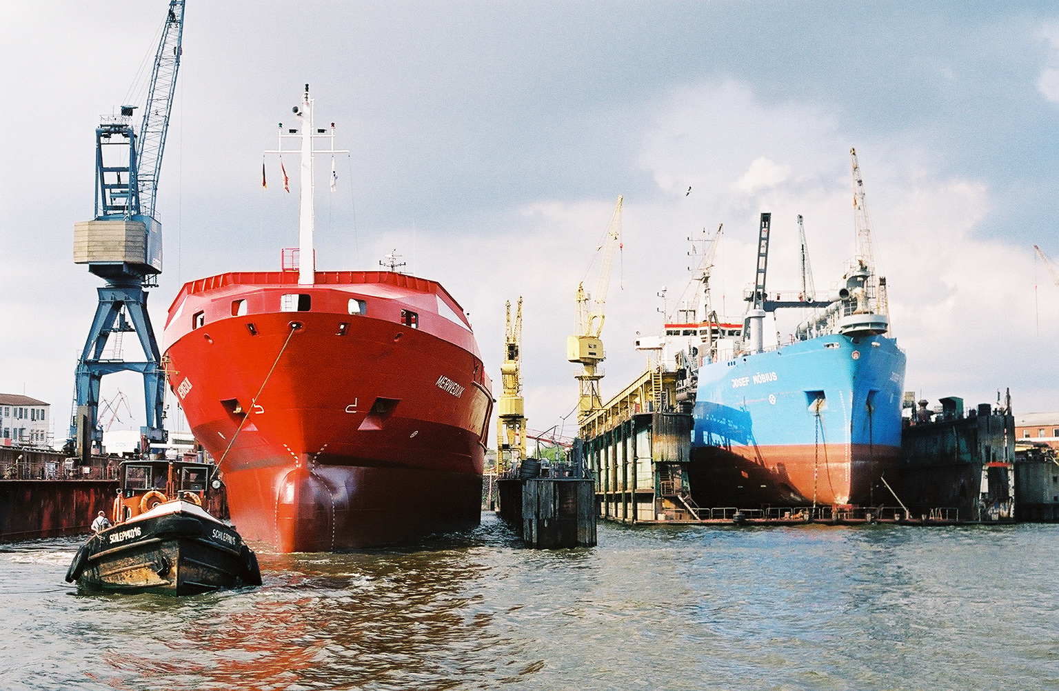 Two ships in Hamburg Harbour. Ship name: Merwedijk Flag: The Netherlands IMO Number: 9242986 MMSI Number: 245448000 Callsign: PFCN Length: 132 m Beam: 20 m Ship name: Josef Möbius Flag: Germany IMO Number: 7360162 MMSI Number: 21138590 Callsign: DPWT Length: 118 m Beam: 19 m